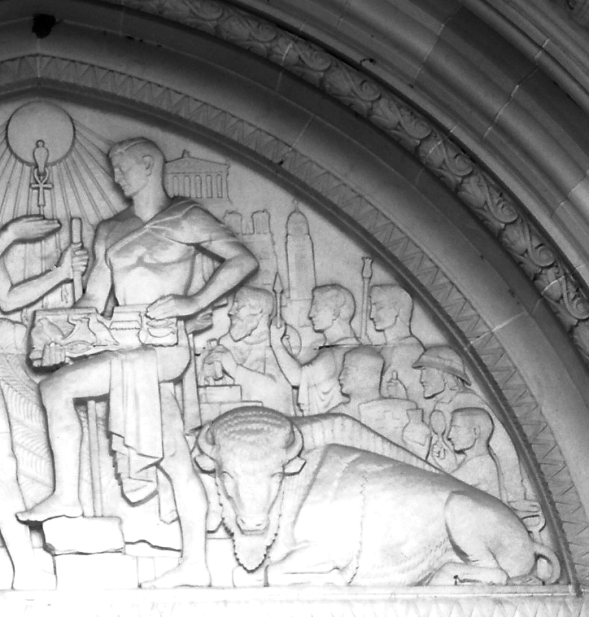 photo by Einar Einarsson Kvaran aka Carptrash 07:13, 11 March 2007 (UTC) of Ulric Ellerhusen's tympanum at the Oriental Institute, Chicago